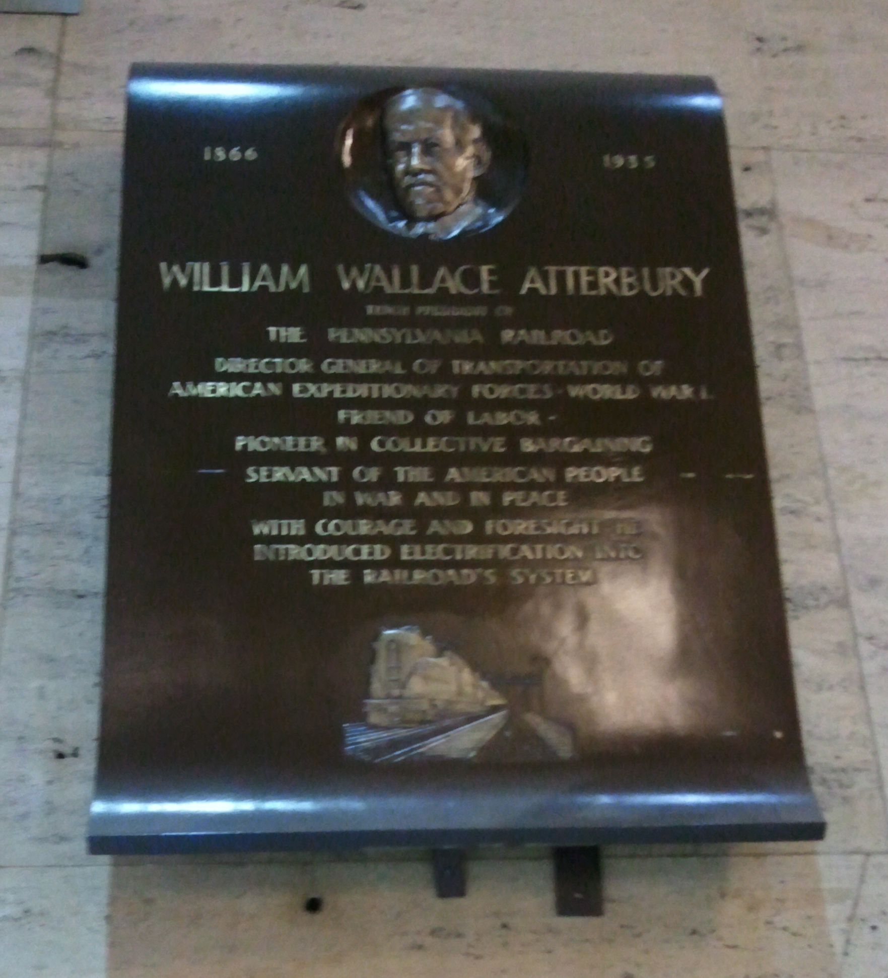 A plaque commemorating the career of William Wallace Atterbury, hanging in Philadelphia's 30th Street Station, a former Pennsylvania Railroad Station. The text of the plaque reads: "William Wallace Atterbury / 1866–1935 / Tenth president of the Pennsylvania Railroad / Director General of Transportation of American Expeditionary Forces—World War I / Friend of labor / Pioneer in collective bargaining / Servant of the American people in war and in peace / With courage and foresight he introduced electrification into the railroad's system "